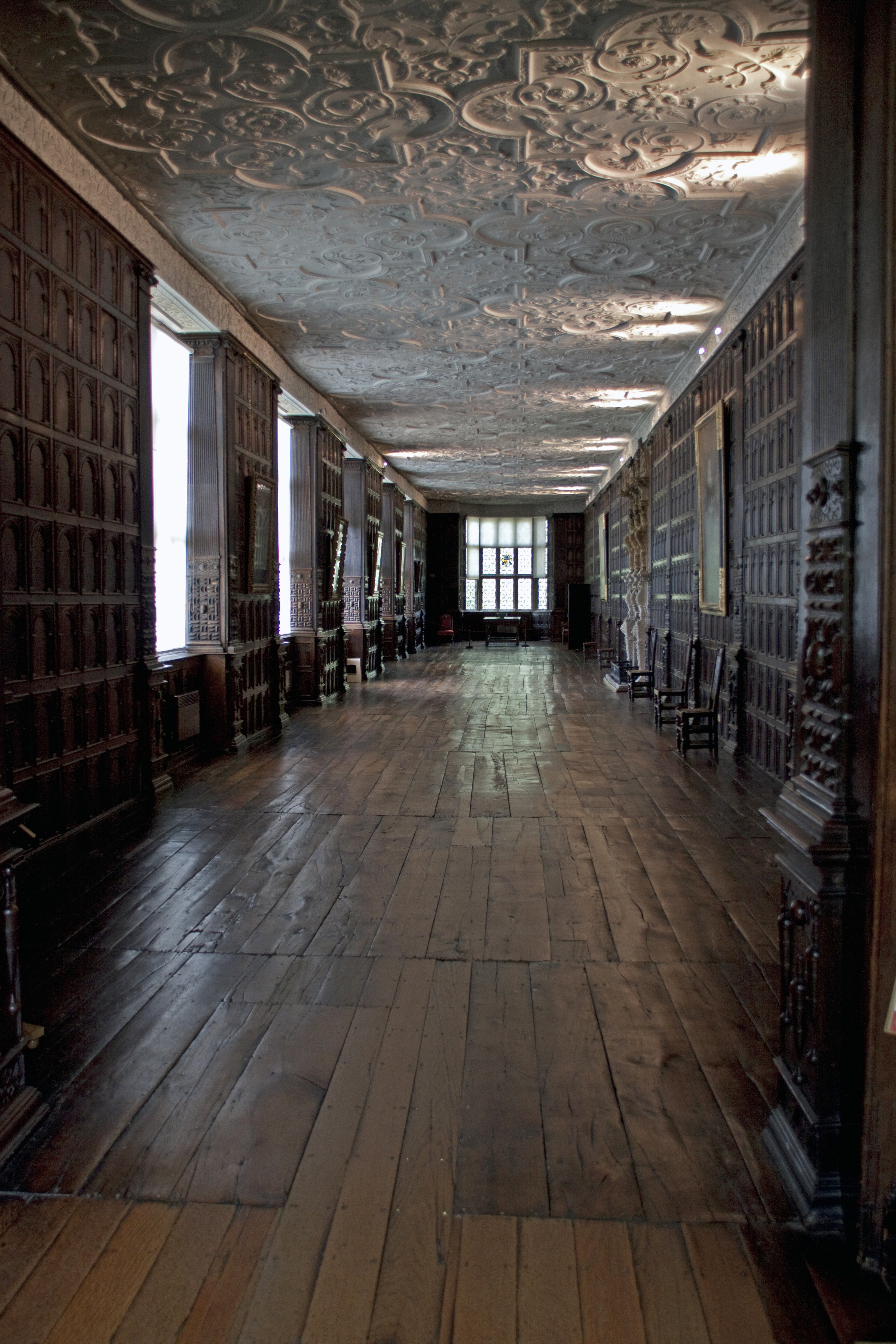 Aston Hall Long Gallery 1